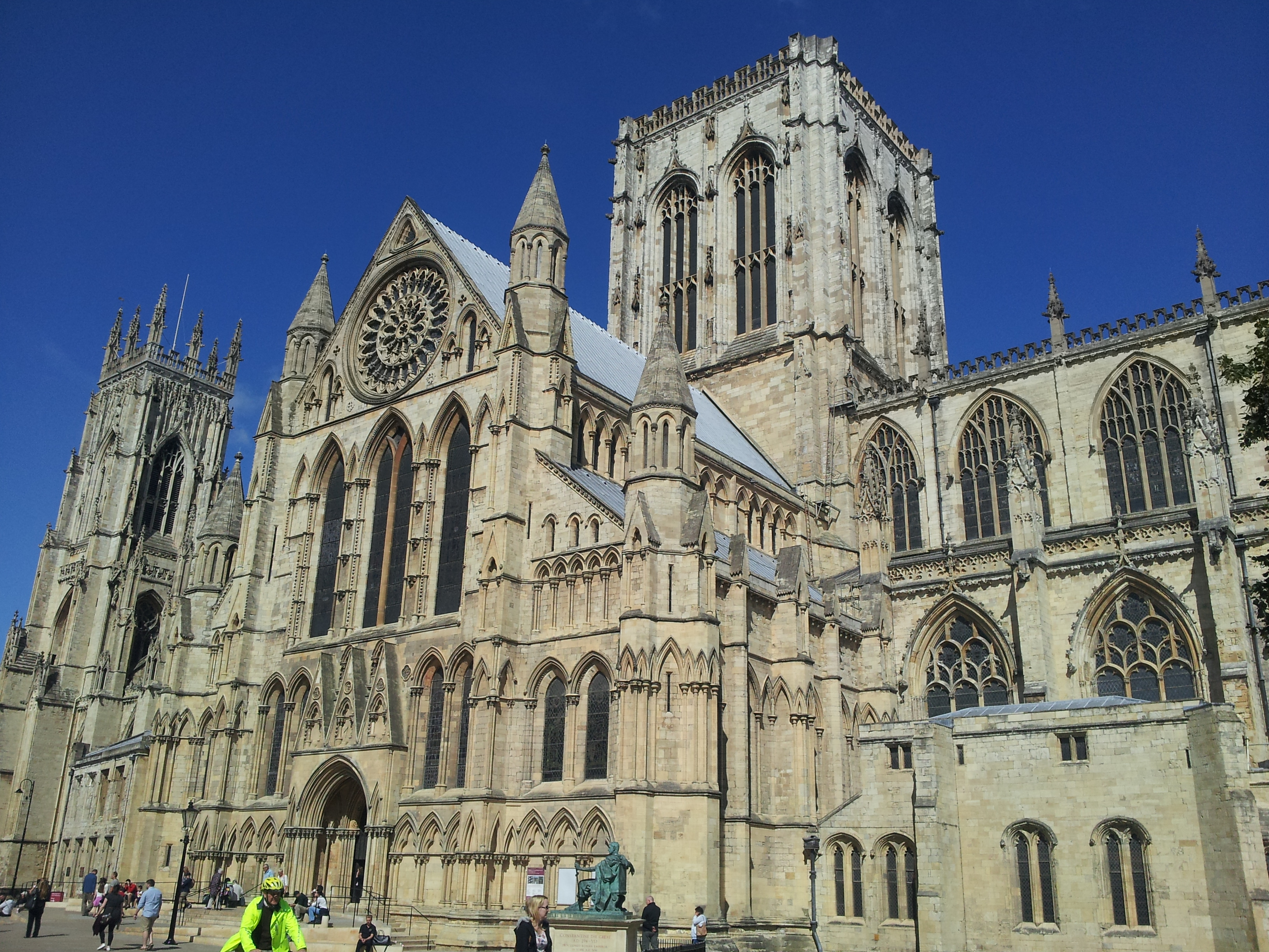 York Minster viewed from the South West.